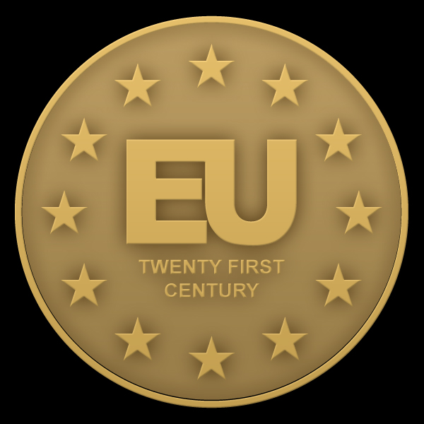 HOMER European Medal of Poetry And Art (revers) project by Dariusz Tomasz Lebioda